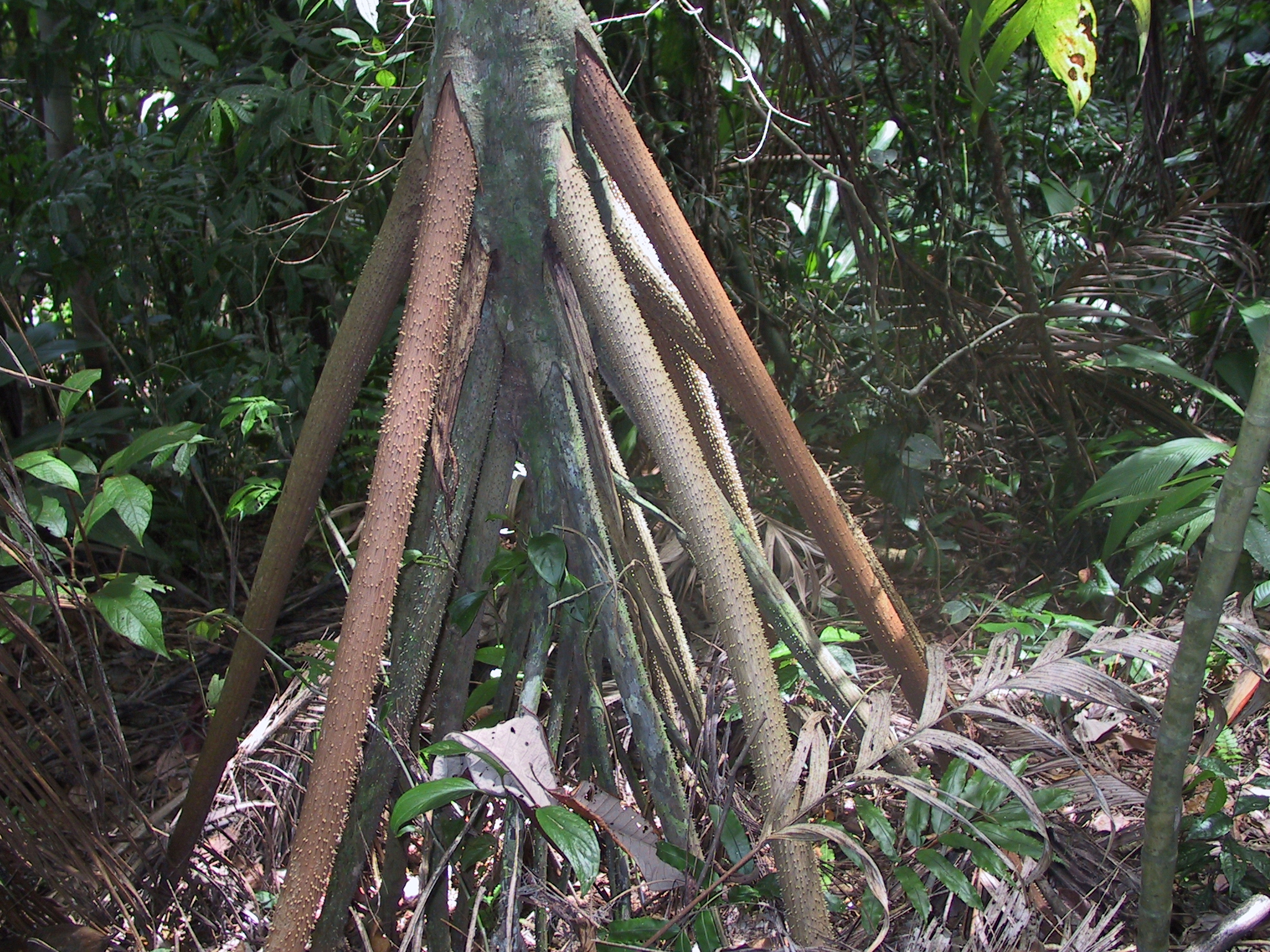 Description: "walking Palm", Socratea exorrhiza, Costa Rica, National Parc La Amistad Source: self made Date: 2002-12-03 Author = --Ruestz 17:27, 13 March 2006 (UTC)